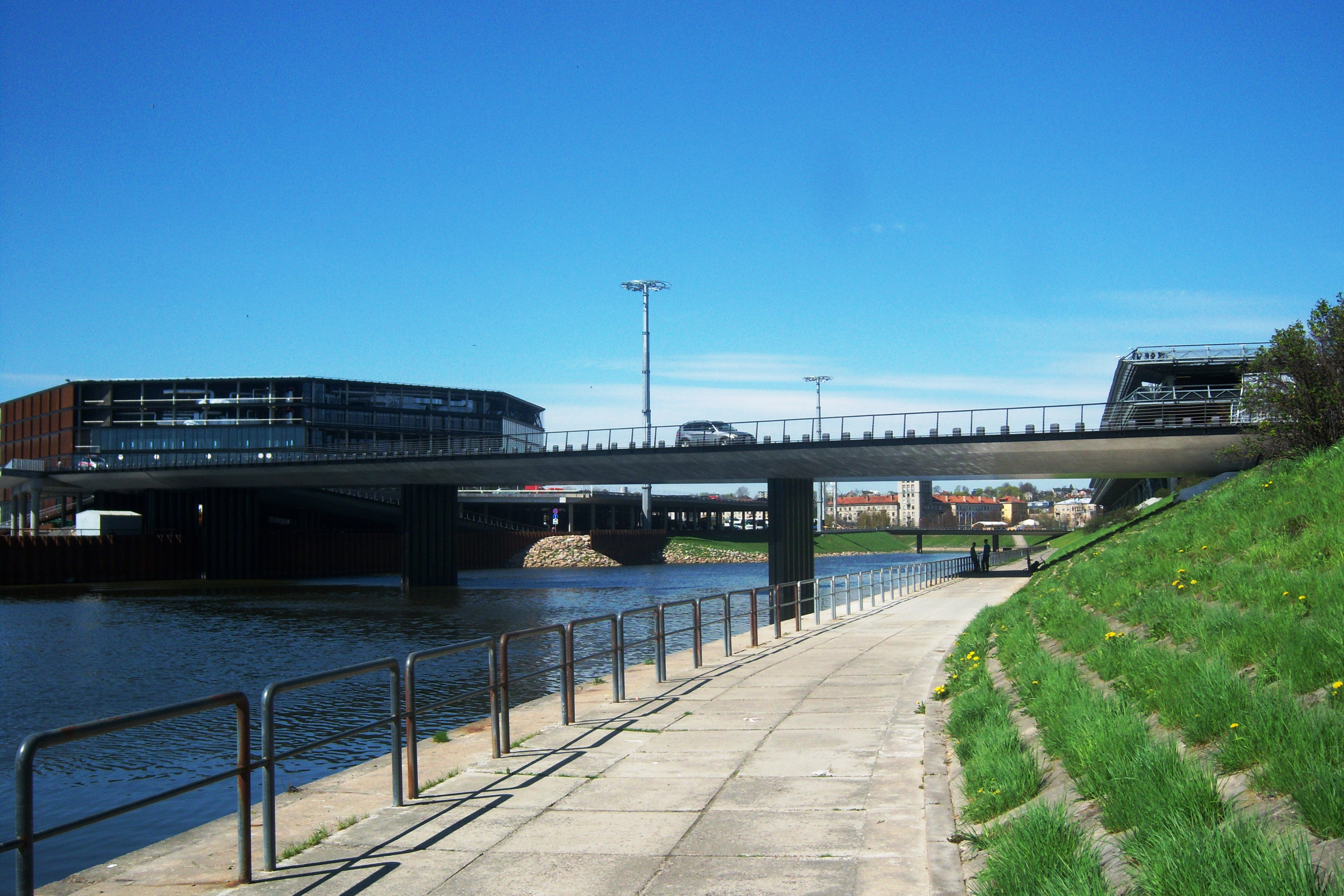 Karmelitų Bridge to Nemunas Island, Kaunas, Lithuania